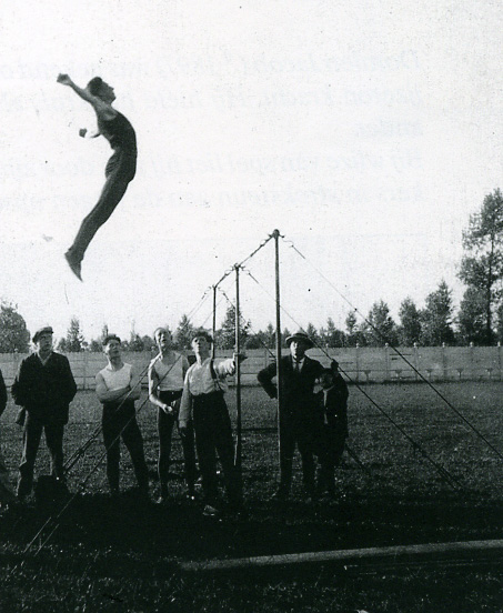 Nicolaas Moerloos Belgian Gymnast